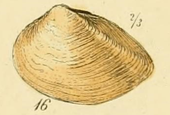 Gastrana fragilis (Linnaeus, 1758), Tellinidae, Bivalvia, Mollusca, from George Brettingham Sowerby II 1859: pl.2, fig.16